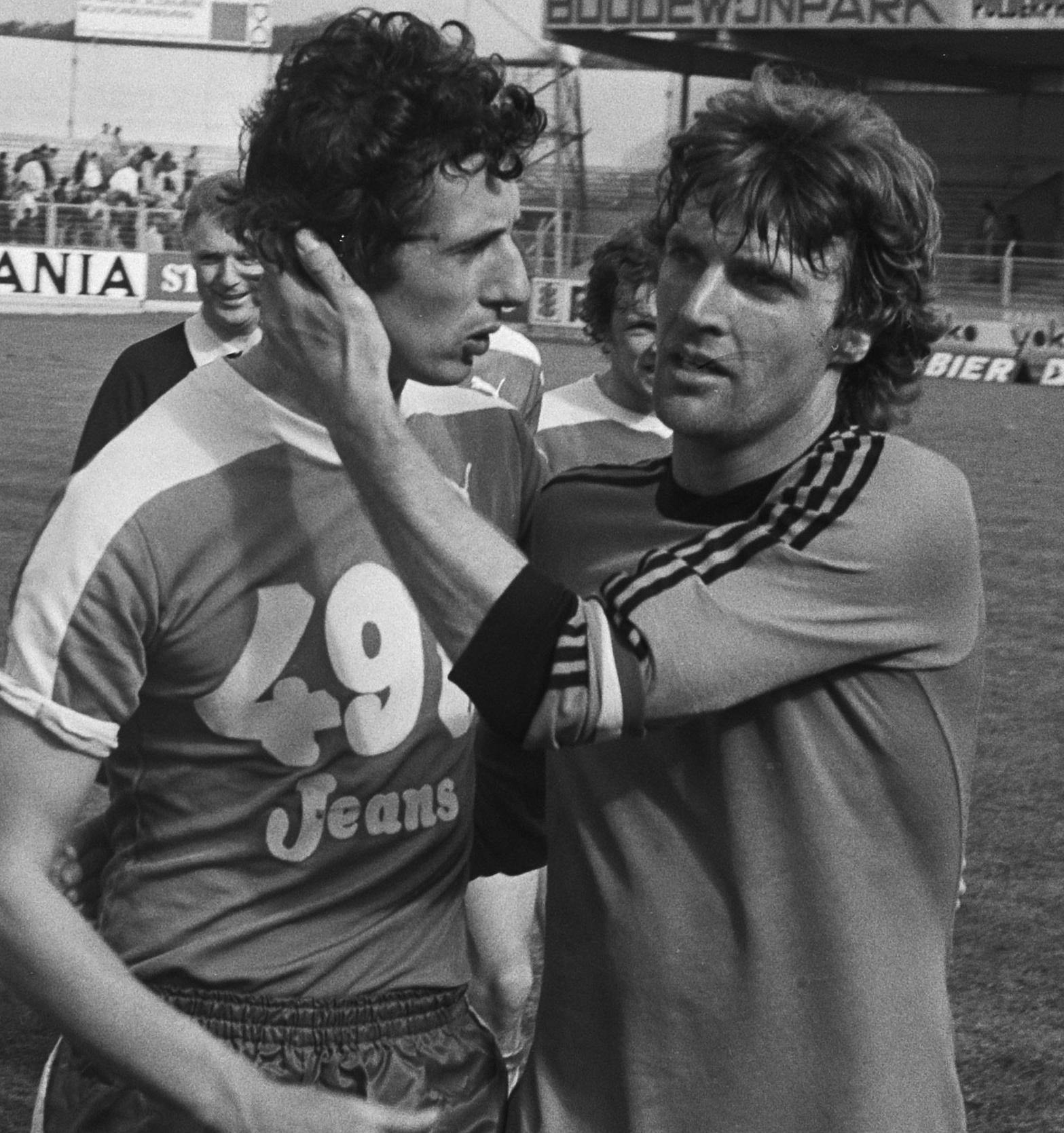 Georges Leekens (left) and Ruud Krol (right) after a friendly game between Club Brugge and Netherlands national football team.